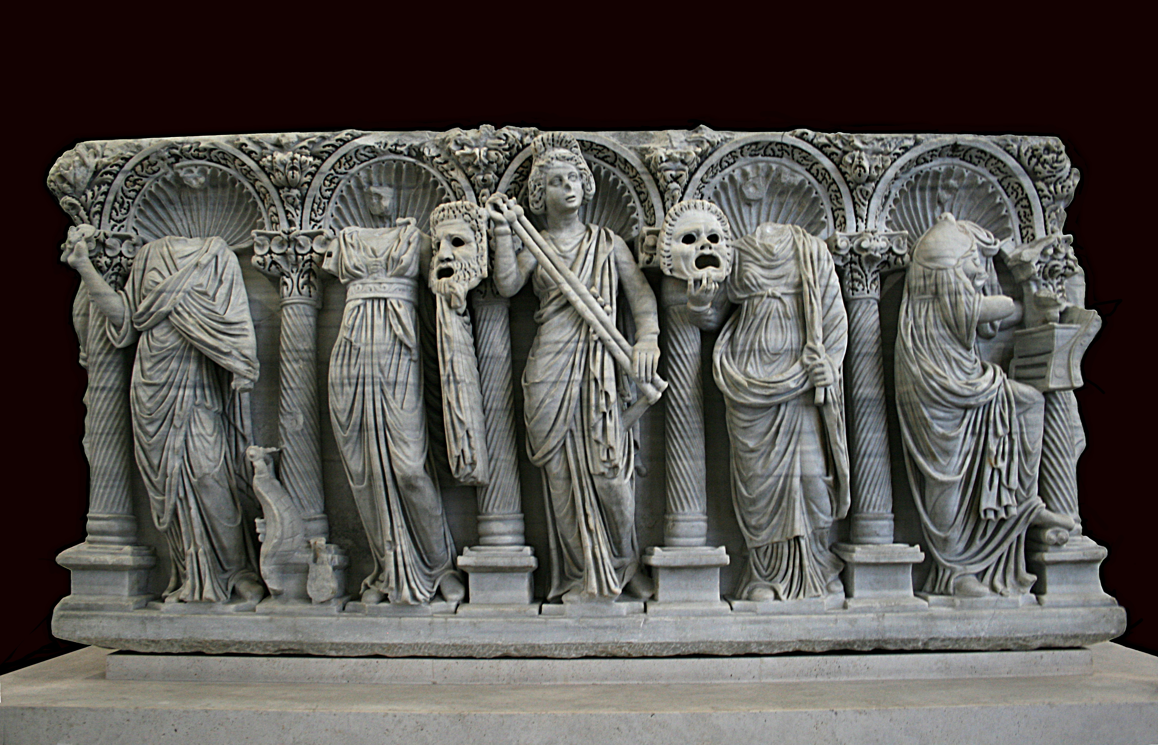 Marble sarcophagus depicting muses (280 - 290, 3rd Century) - From: Villa celimontana, Rome.